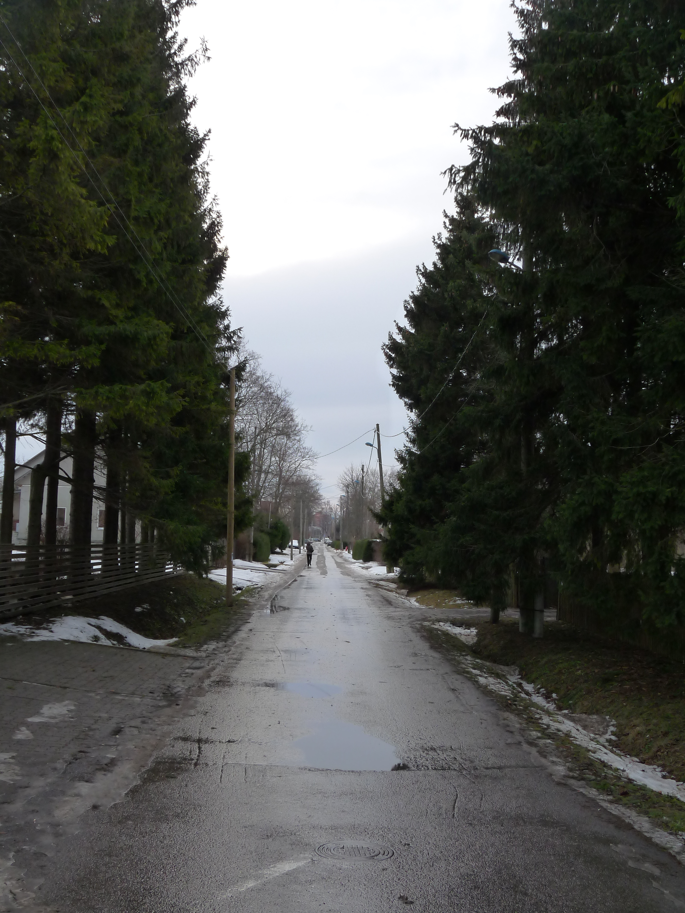 Lehe street in Tallinn, Estonia